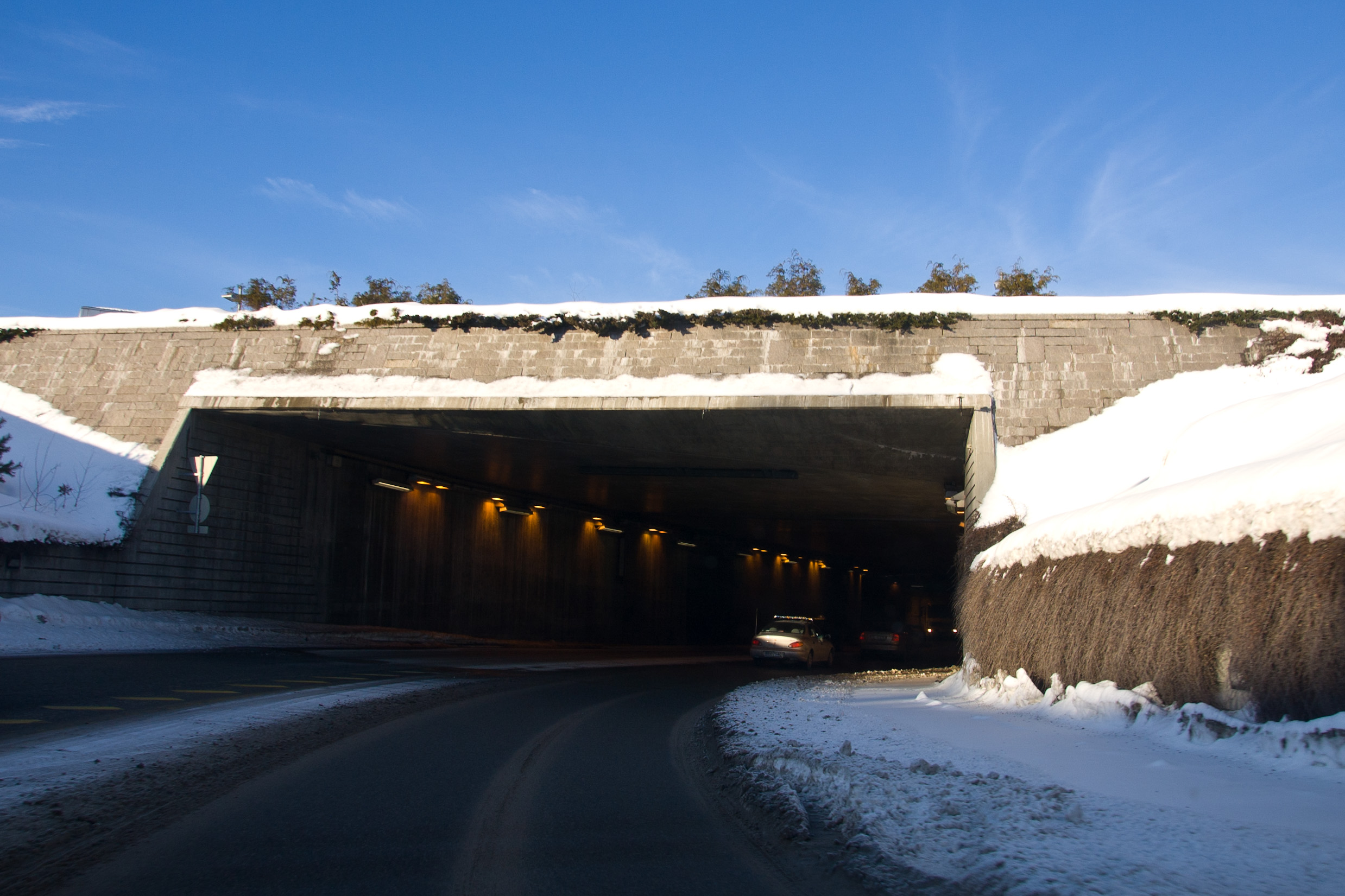 Bragernes tunnel, Drammen, Buskerud, Norway